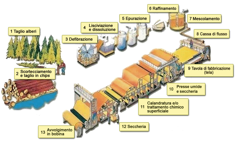 Production line of paper (in Italiano)